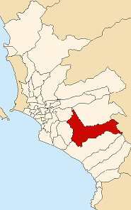 Map of Lima highlighting the Pachacamac district in southern Lima.